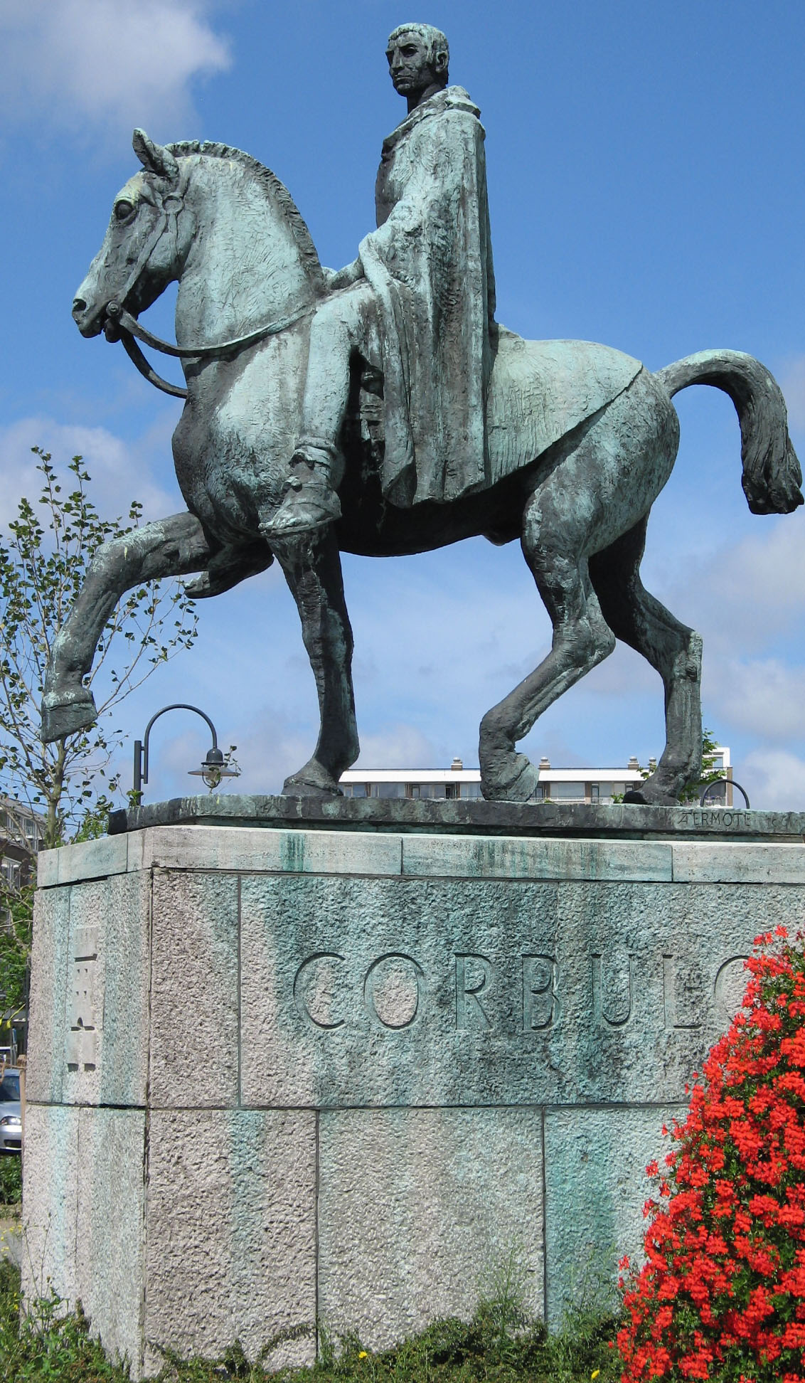 The statue of Corbulo by Termote